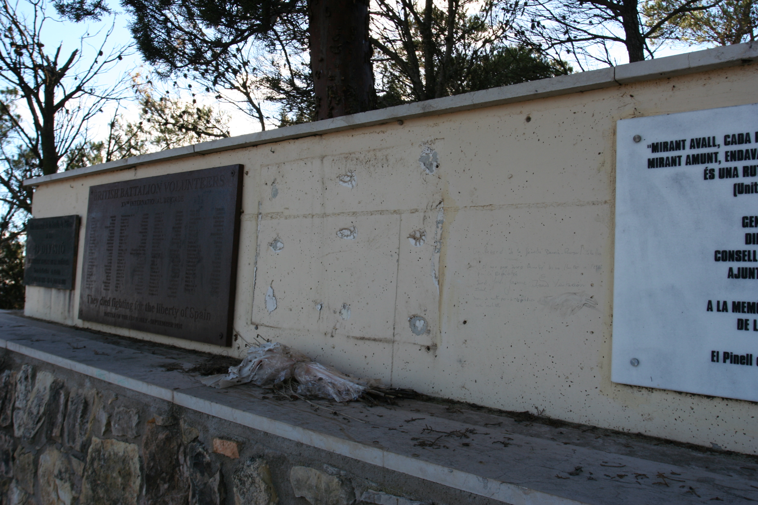 Sierra de Pandols, cota 705 summit. The wall commemorating Republican defenders with empty place where plaque to honour Enrique Lister used to be. It was removed by unknown perpetrators in 2007, see here